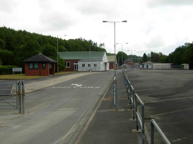 Former Royal Naval Armaments Depot, Trecwn. This huge complex formerly housed the Royal Naval Armaments Depot and has extensive underground storage bunkers. It played a key part in the Second World War, and, it is said, was never found by the Luftwaffe. It closed in the 1990s and has now been taken over by a company who hope to attract new businesses to the site.